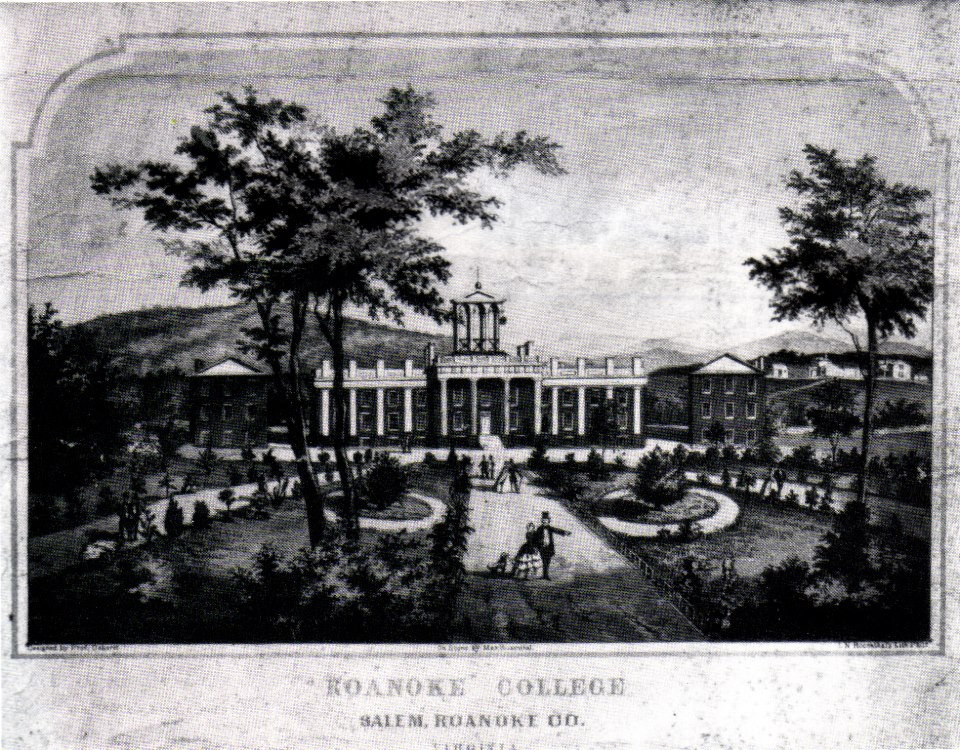 Early image of Roanoke College, founded in 1842.